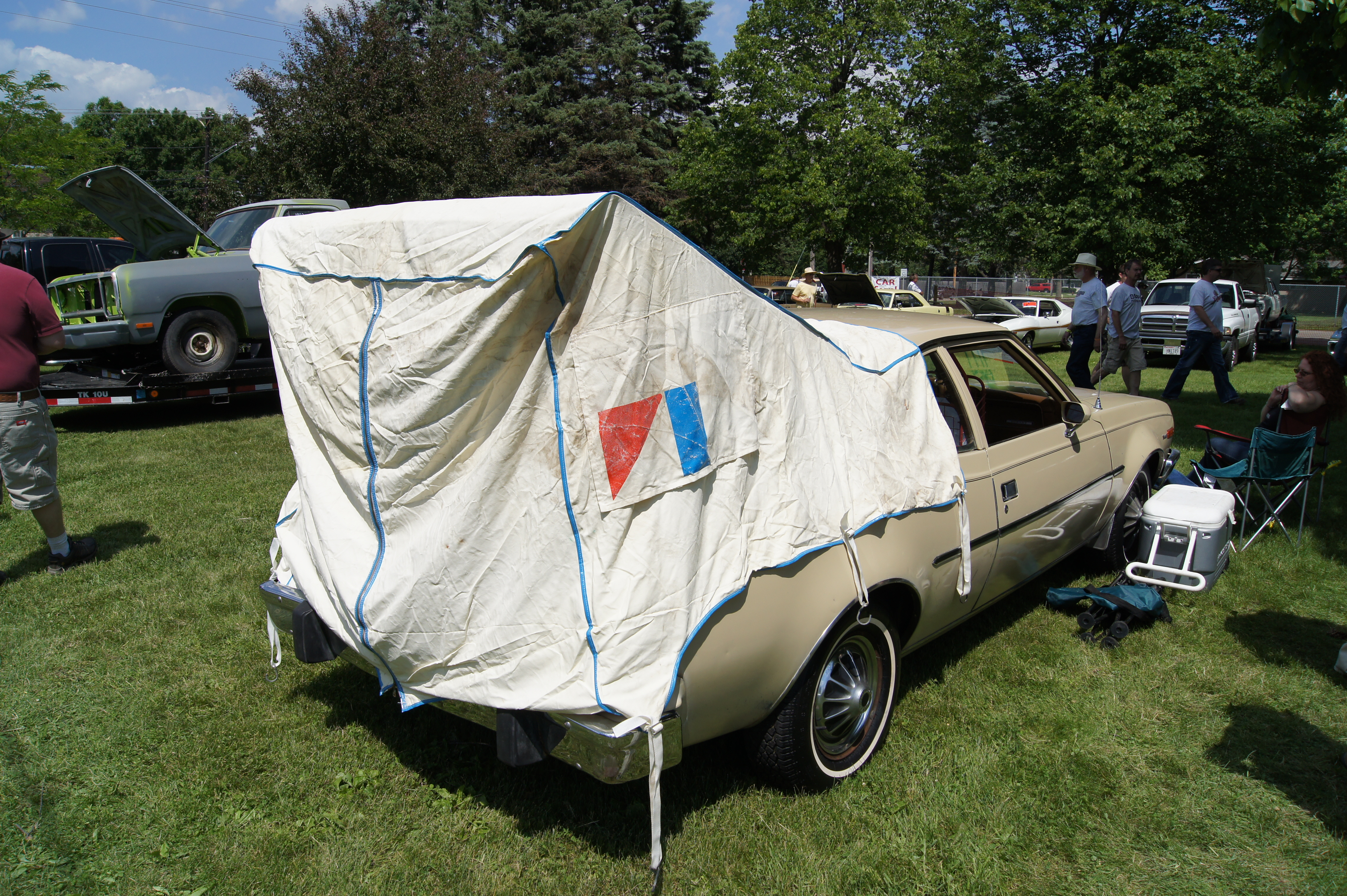 1974 AMC Hornet hatchback with AMC's optional camper-tent accessory for this model. 28th Annual Midwest Mopars in the Park.